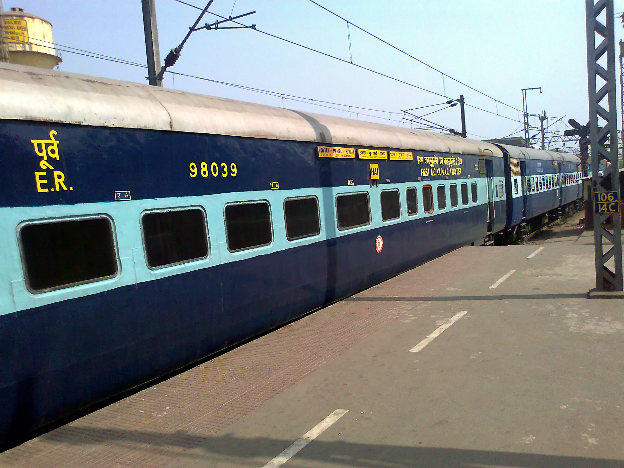 Passing through BWN.